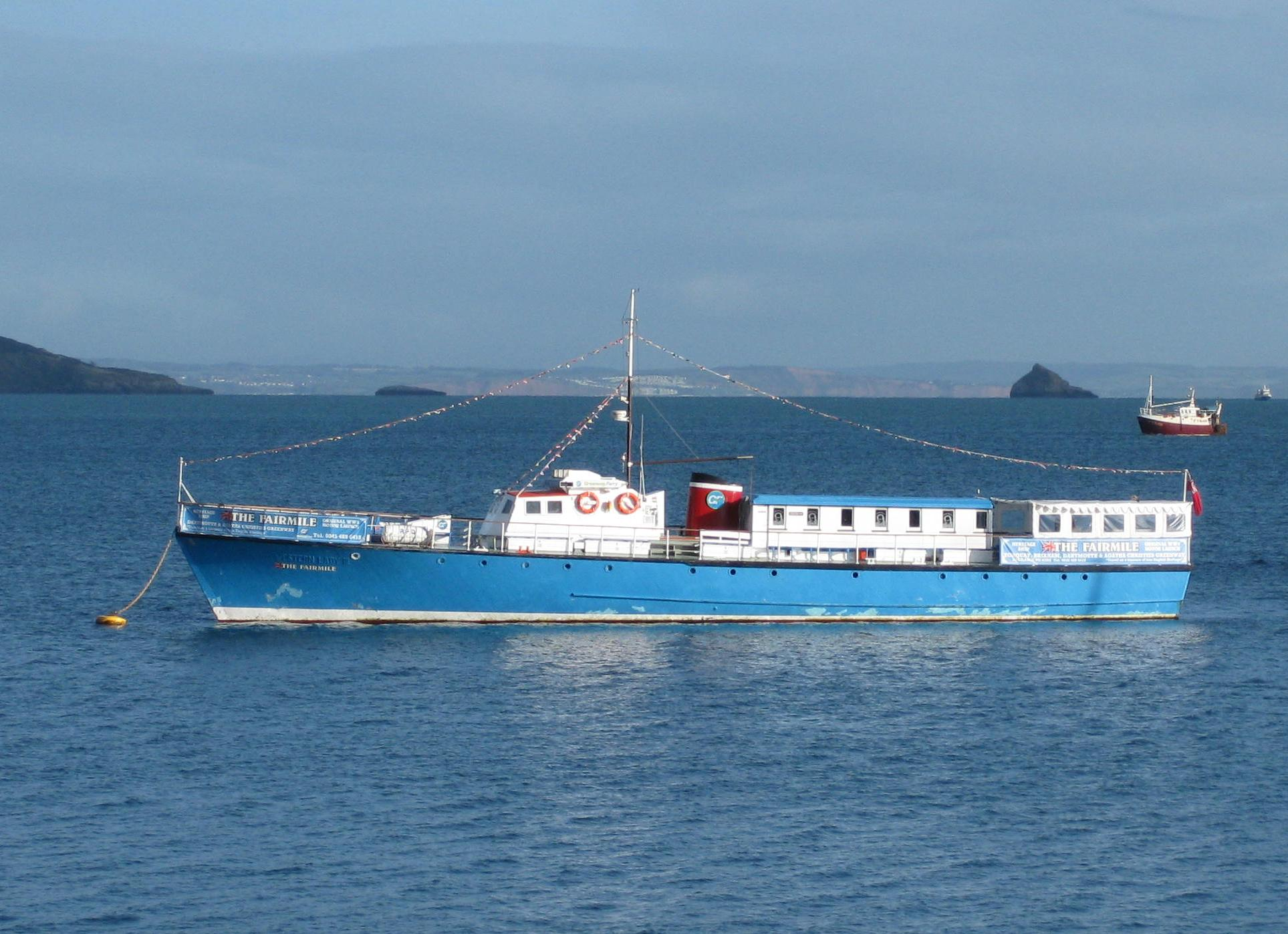 MV The Fairmile, previously MV Western Lady III, a former Fairmile B motor launch at her mooring in Brixham in 2009. Photo taken from adjacent to AstraZenica building, looking towards Torquay.